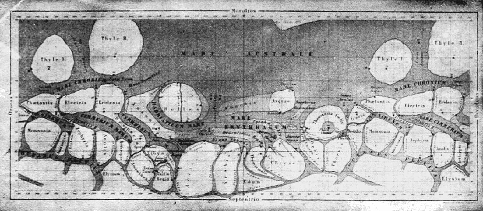 Map 5 Schiaparelli 1877